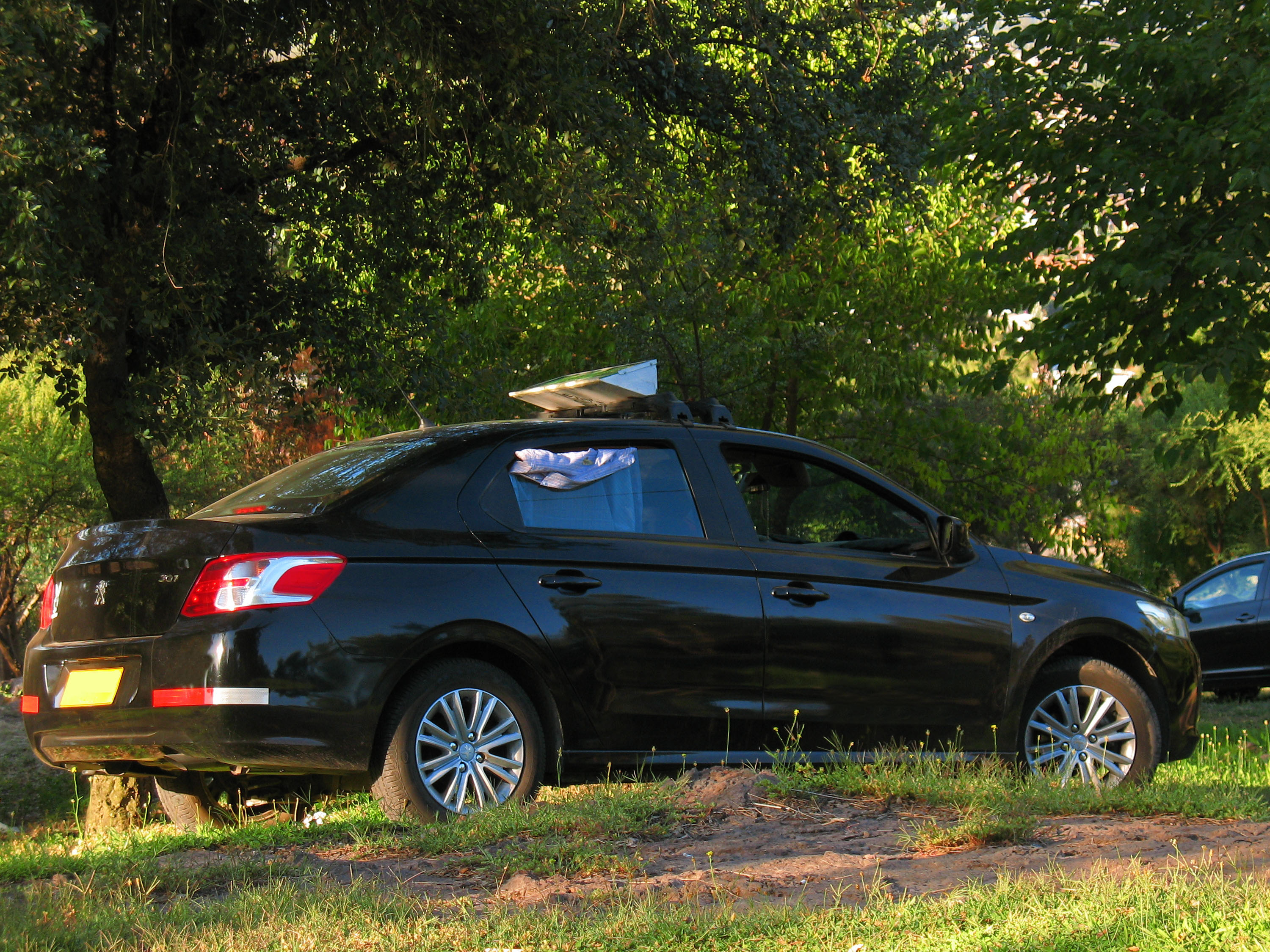 very popular as share taxi